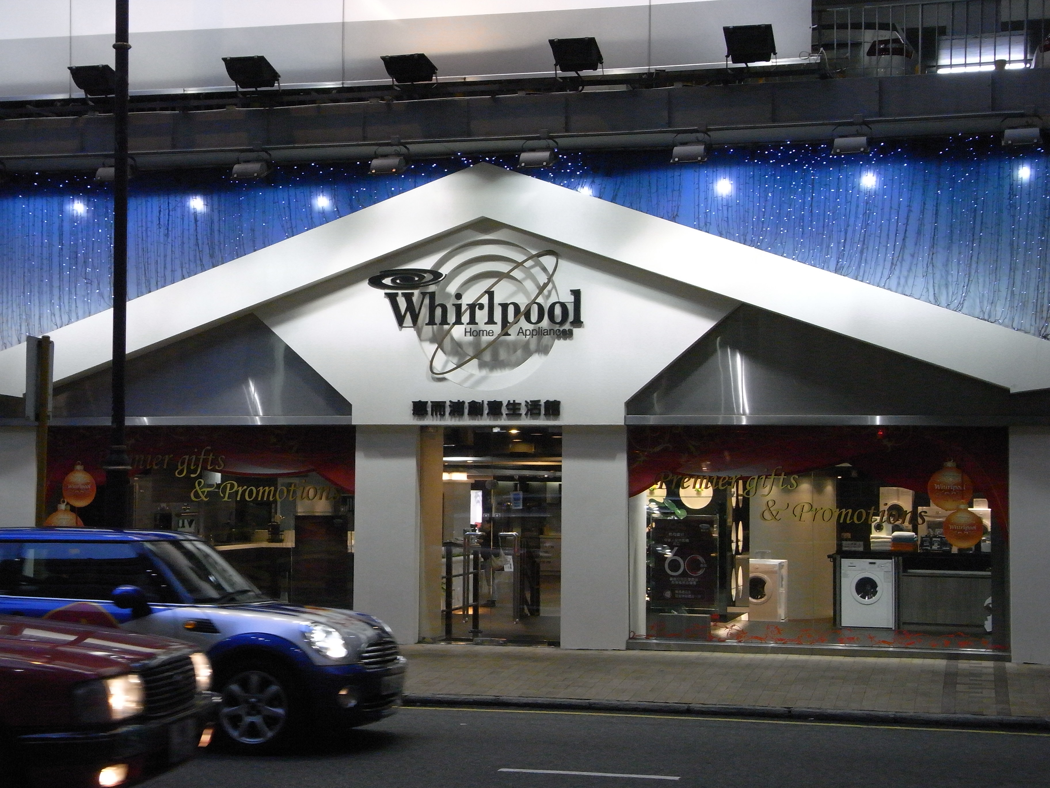 銅鑼灣 禮頓道 嘉柏大廈 惠而浦